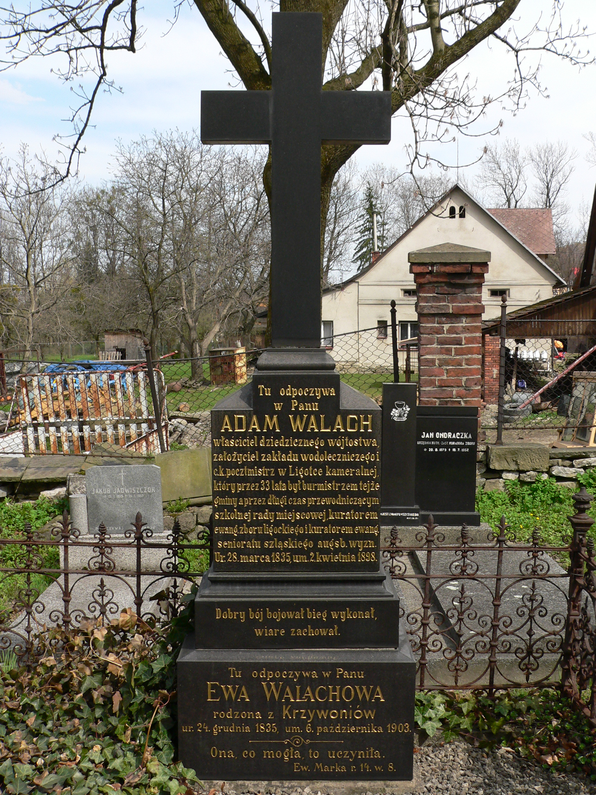 Grave of Adam Walach at the Protestant church cemetery in Komorní Lhotka (Ligotka Kameralna), Czech Republic